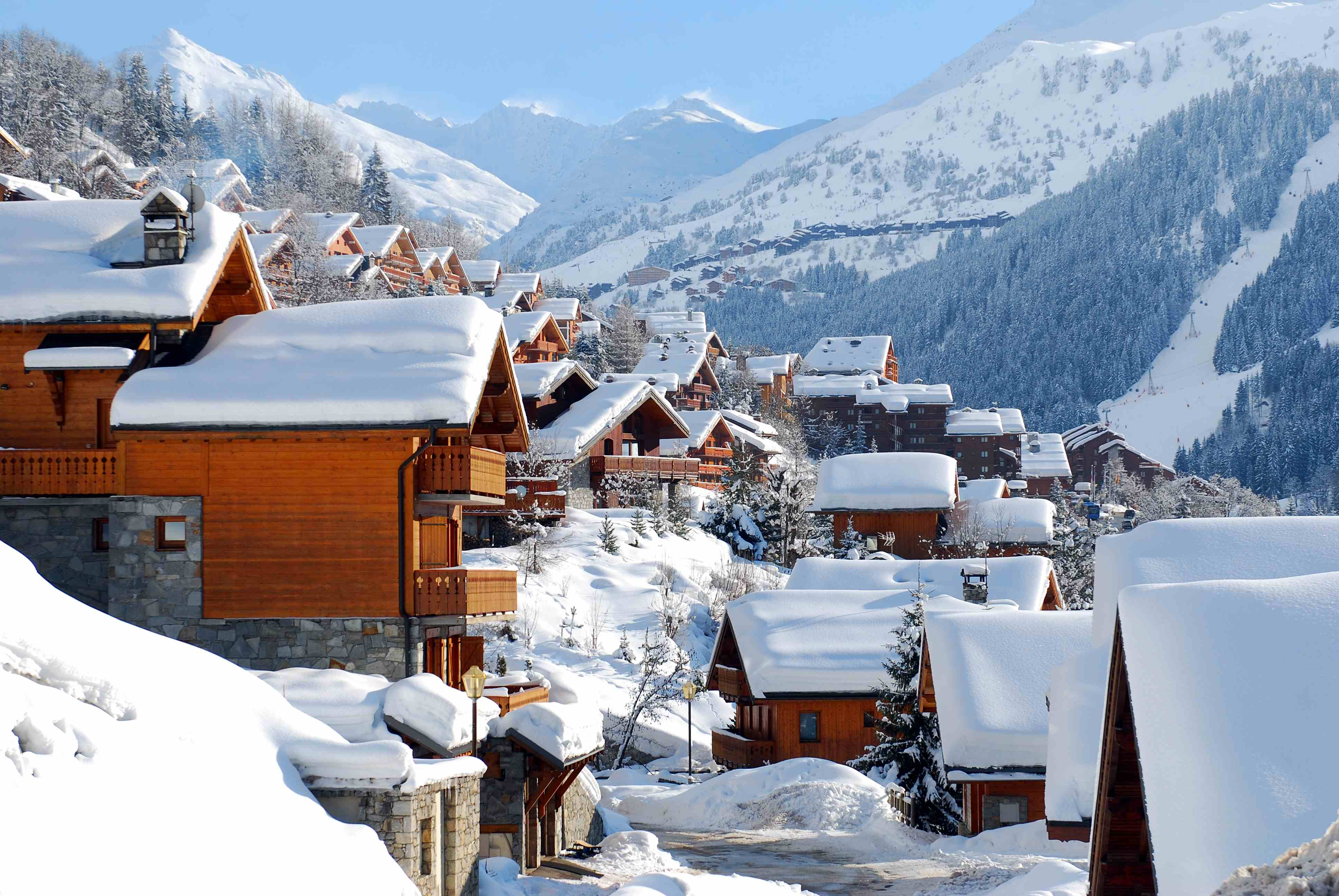 MERIBEL